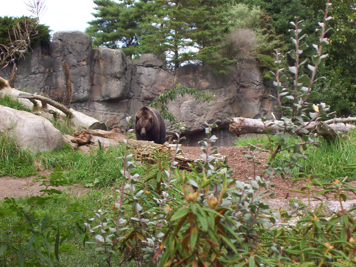 brown bear exhibit, Woodland Park Zoo, Seattle